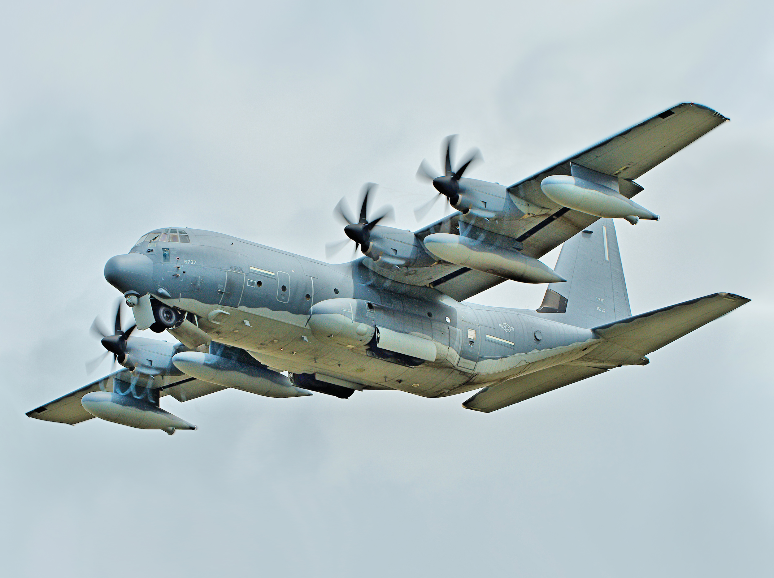 MC-130J Commando II - RIAT 2016